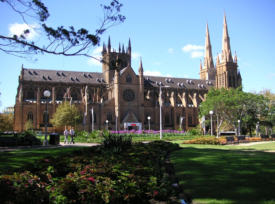 Sydney, St Marys Roman Catholic Cathedral, from Hyde Park